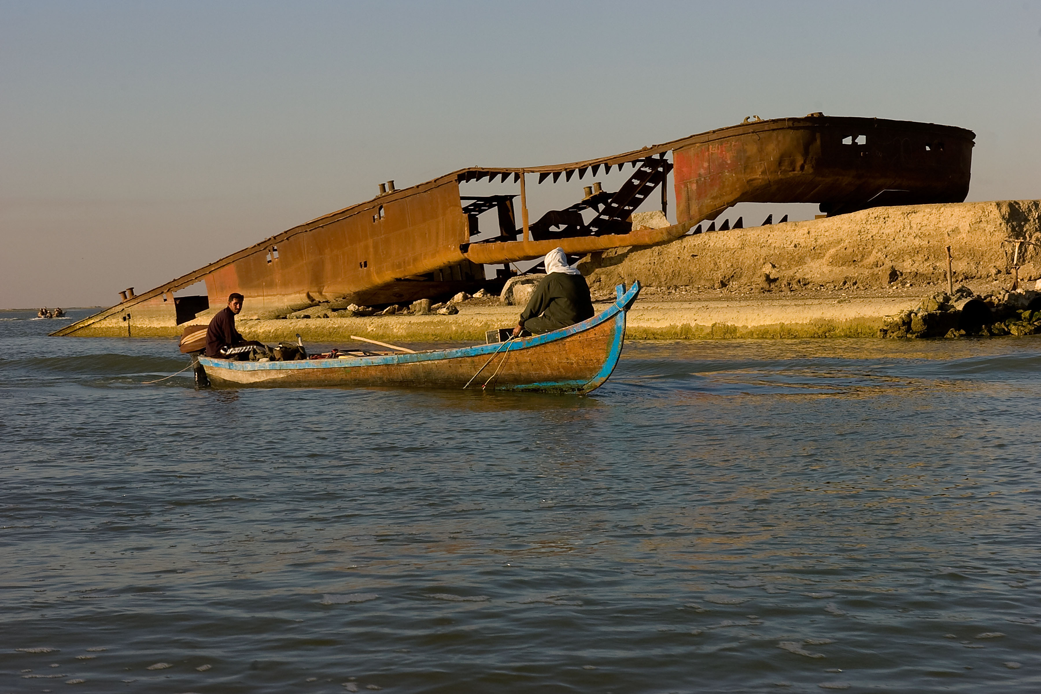 Iraqi fishermen travel along an irrigation channel in their mashoof fishing boat, on Dec. 19, 2008, in the Basra province, Iraq.